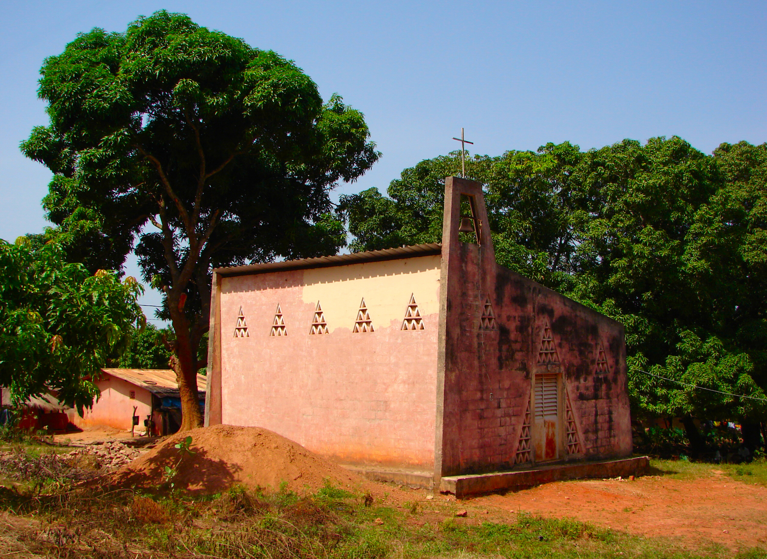 A church in the outskirts of Ziguinchor, Senegal.